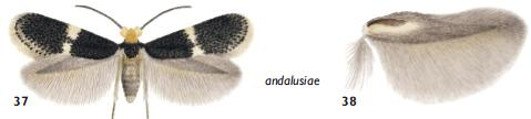 Ectoedemia andalusiae male and male hindwing